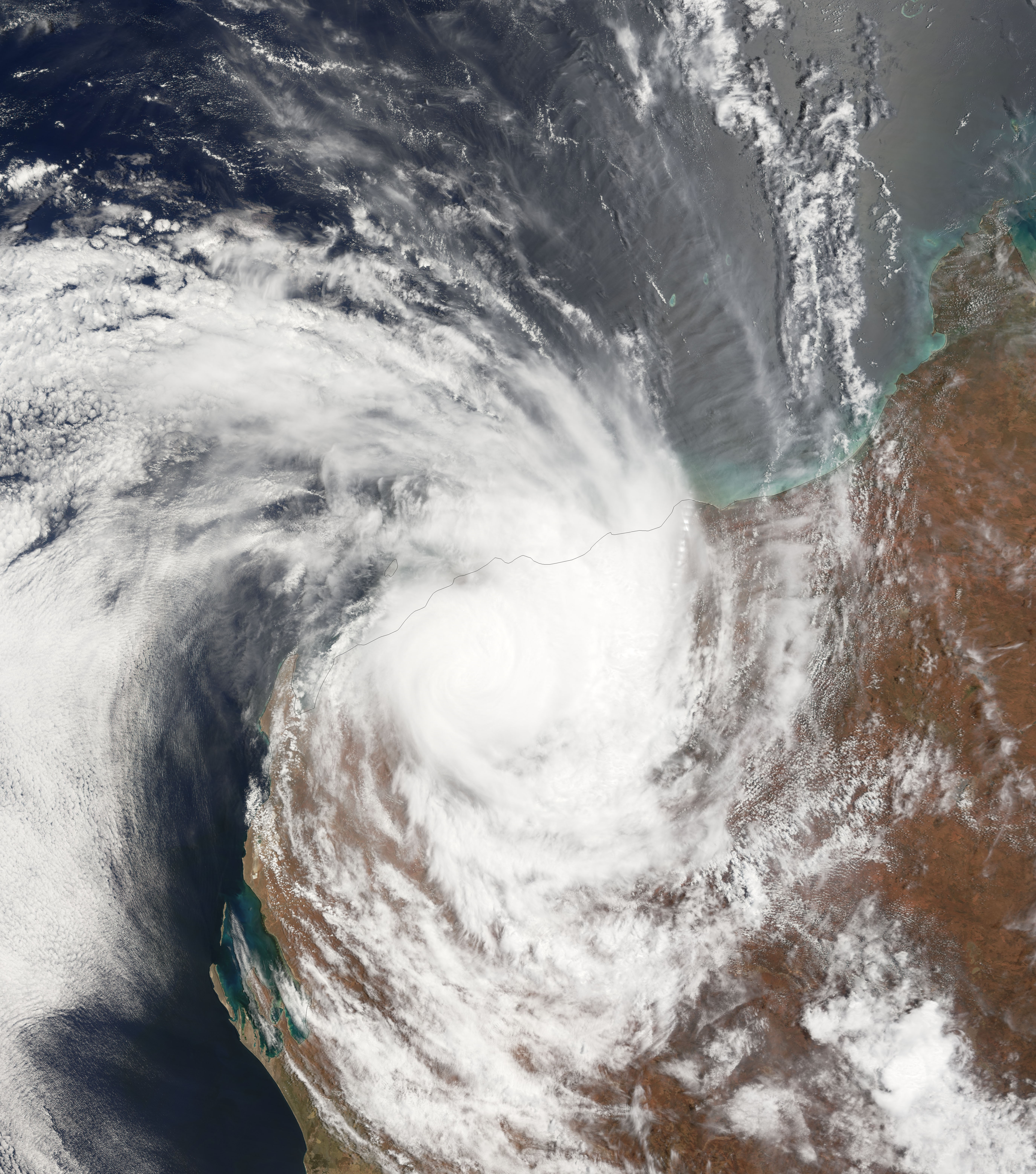 Residents of Western Australia’s Pilbara Coast are accustomed to tropical storms; the Pilbara Coast sees more cyclones than any other part of the Australian coastline. Still, Tropical Cyclone Clare strained some nerves in early January 2006. Although the storm was downgraded from a Category 3 to a Category 2, it prompted hundreds of residents to evacuate the area, and downed some power and telephone lines. The Moderate Resolution Imaging Spectroradiometer (MODIS) on the Terra satellite took this image of Clare at 10:30 a.m. local time on January 10, 2006. Hurricanes in the Indian Ocean and the Western Pacific Ocean are termed cyclones, and their wind direction depends on whether they are north or south of the equator. In the Southern Hemisphere, cyclone winds blow in a clockwise direction. In this image, Clare stretches hundreds of kilometers across as it moves along the Pilbara Coast. At the time this image was taken, Clare was a well-developed storm system with peak sustained winds of around 100 kilometers (60 miles) per hour. The cyclone’s center was about 300 kilometers from Port Hedland, the nearest major city. According to a report from .au, the storm had winds as high as 200 kilometers per hour when it struck Dampier, a coastal town approximately 200 kilometers southwest of Port Hedland. The storm also dropped 20 centimeters (almost 8 inches) of rain on Dampier, and forecasters expected more rain for the area. Clare was expected to remain a Category 2 storm as it moved inland. As of the morning of January 10, 2006, however, only minor damage was reported.